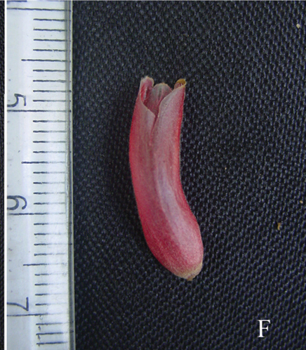 Amomum nilgiricum, bracteole